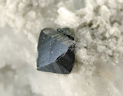 Senaite Locality: Oberaar lake area, Grimsel area, Hasli Valley, Bern, Switzerland (Locality at ) Size: miniature, 4.7 x 3.4 x 2.6 cm Senaite A robust 4mm crystal of this very, VERY rare lead-titanium-iron-manganese oxide. The crystal is sharp and 3-dimensional, showing all side faces. Old Siber & Siber label.